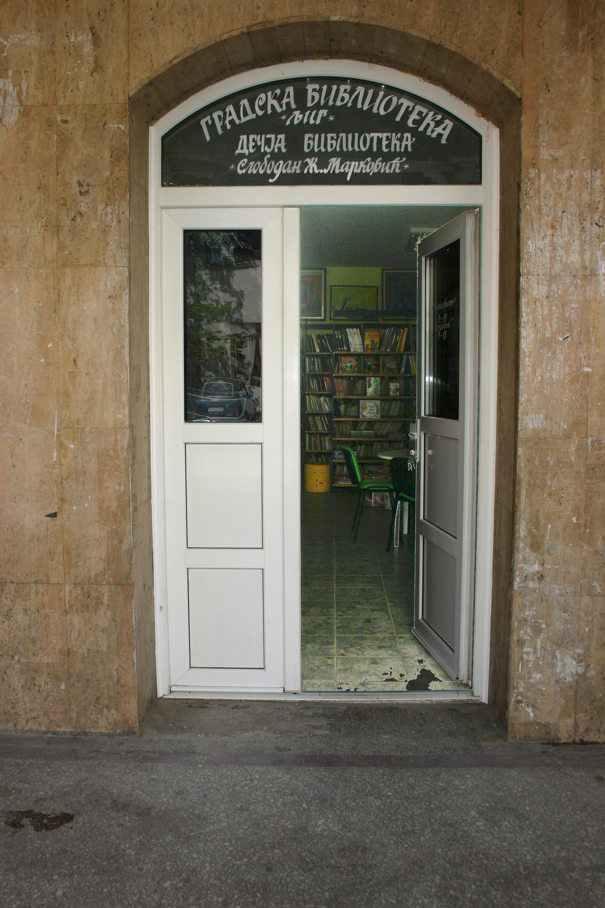 City Library Ljig, Children Library "Slobodan Z. Markovic"